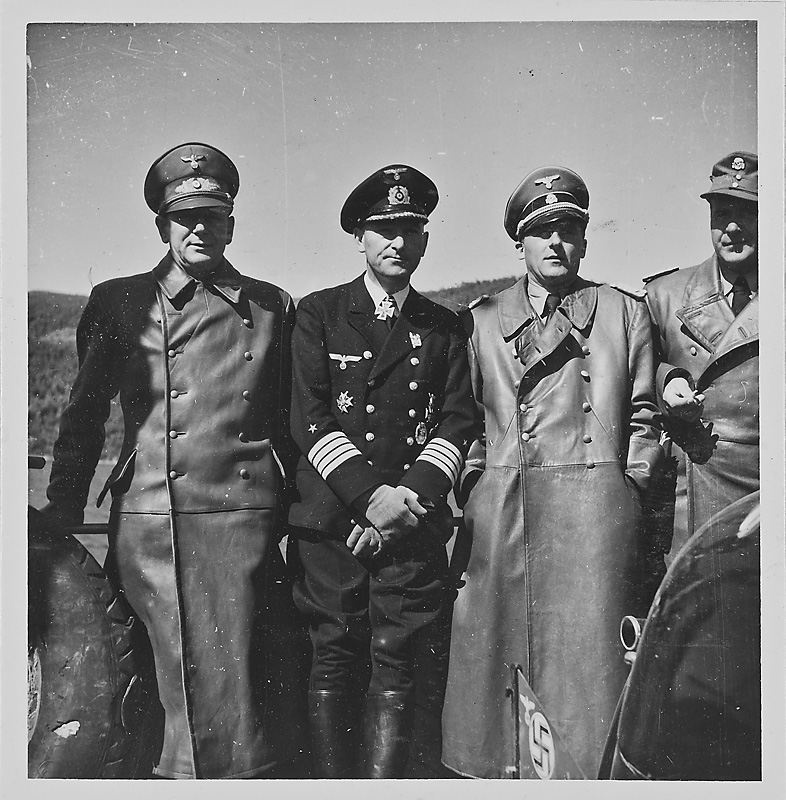 Image from "Photo Album from Terboven's journey to Nothern Norway and Finland 10–27 July 1942" (Mit dem Reichskommissar nach Nordnorwegen und Finnland 10. bis 27. Juli 1942), 375 images uploaded to www. by Riksarkivet (National Archives of Norway) 2012. See scanned album here